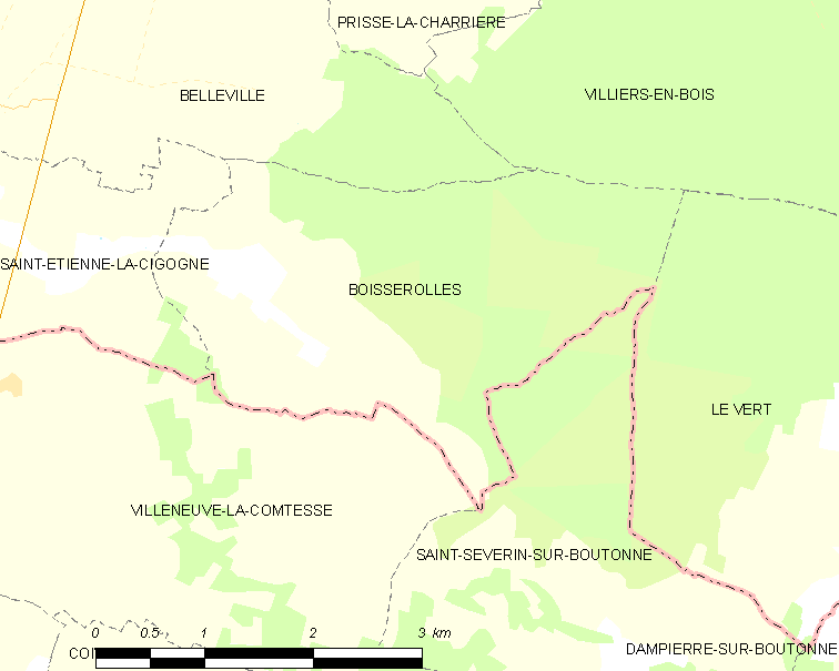 Map of French municipality Boisserolles